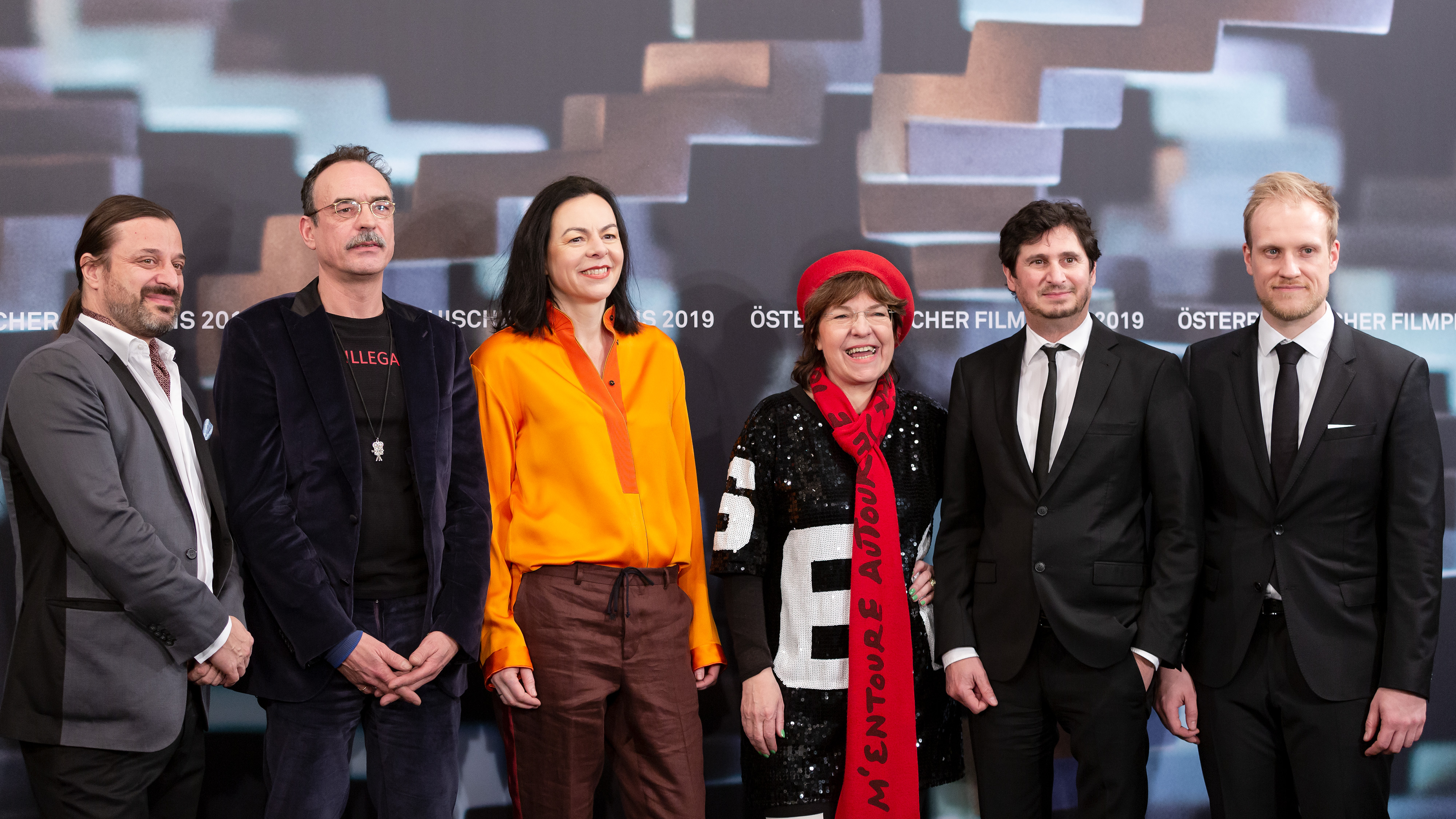 Part of the film team of "Styx", l.t.r. Alexander Dumreicher-Ivanceanu, Benedict Neuenfels, Monika Willi, Bady Minck, Marcos Kantis and ?, photo call at the Austrian Film Awards 2019 (Rathaus, Vienna,Austria).